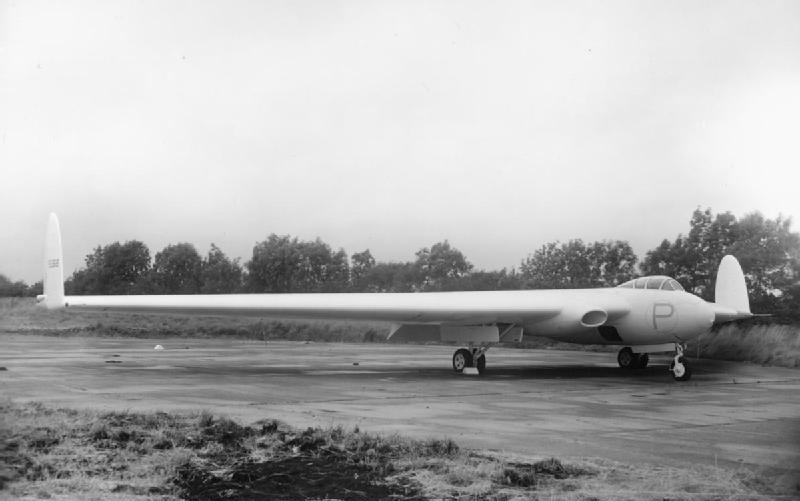 Armstrong Whitworth AW 52 Flying Wing. This is the second of two prototype Flying Wings, designed to Specification E 9/44. This aircraft made its first flight from Boscombe Down on 1 September 1948.